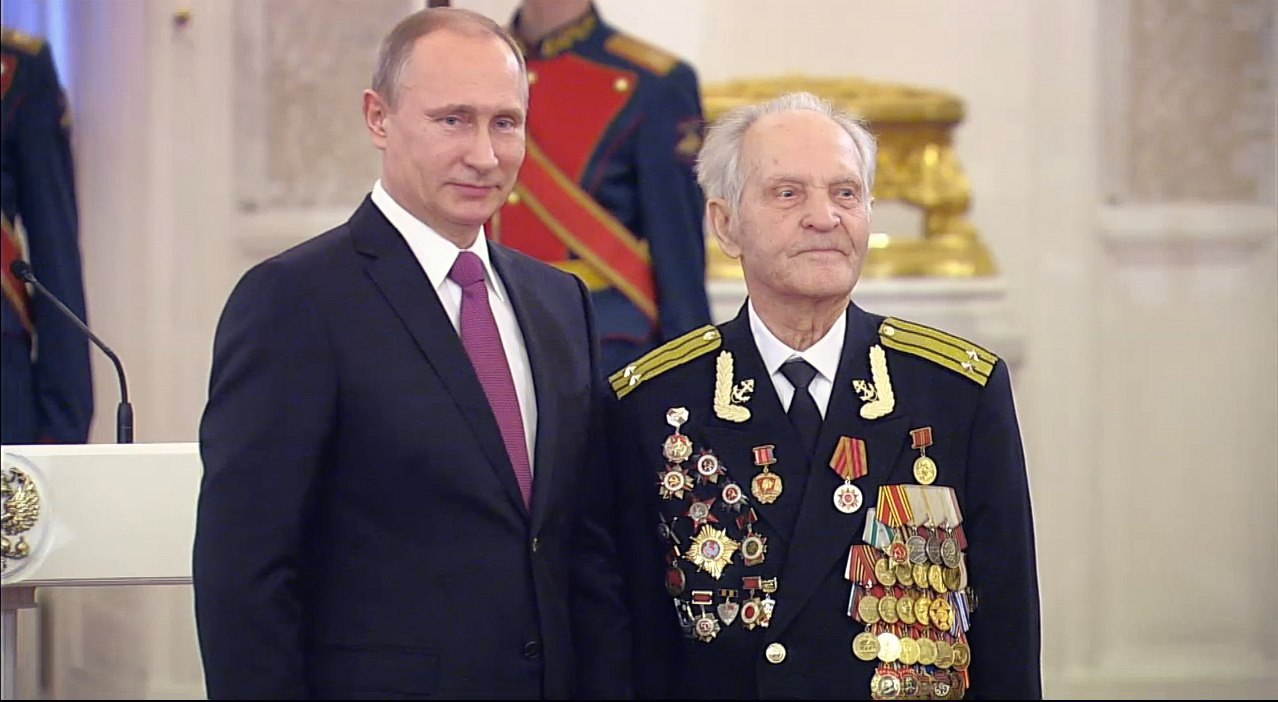 Nikolay Belyaev and Vladimir Putin in Kremlin on "70 Years of Victory" rewarding.